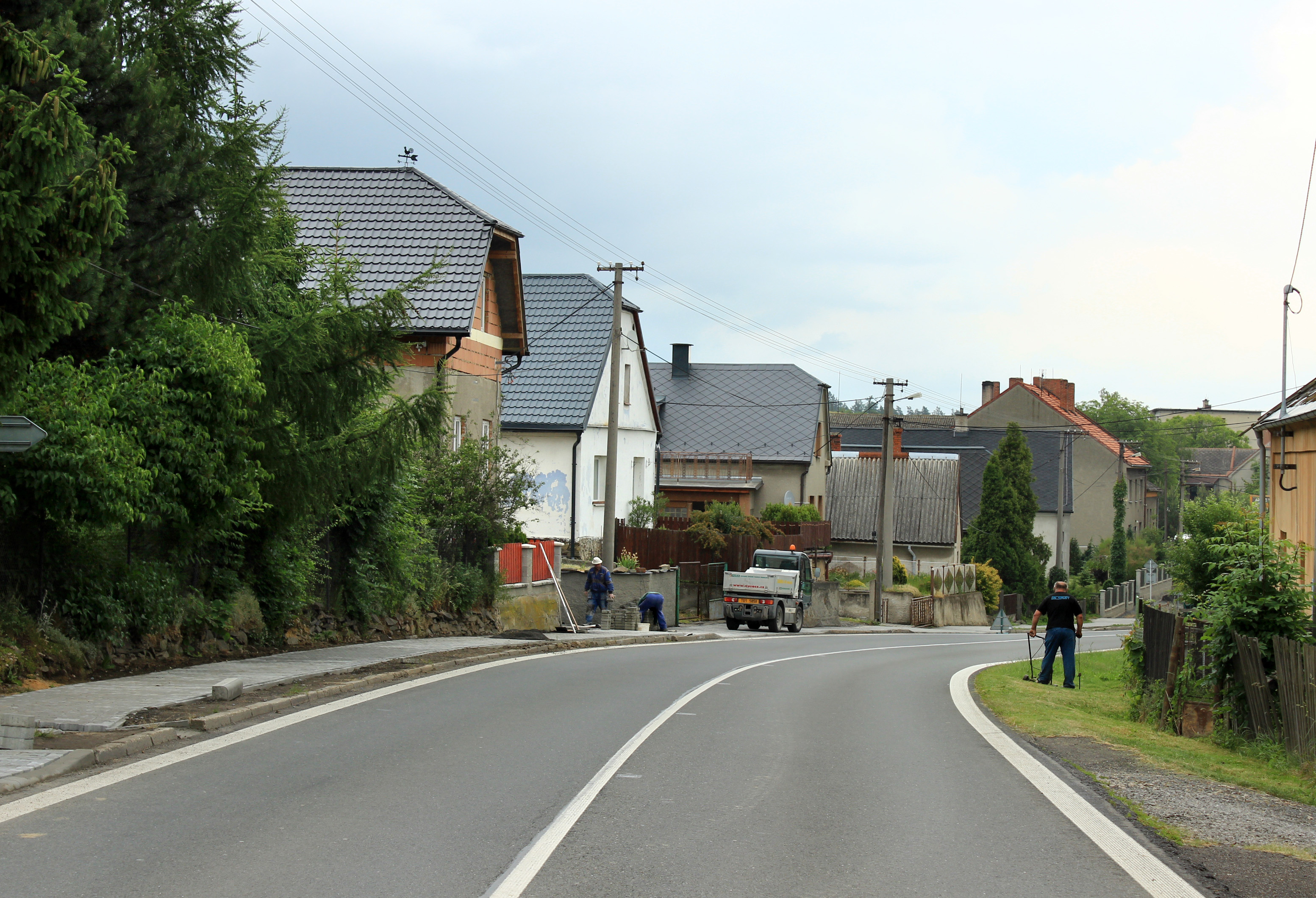 Road No. 11 in Malé Heraltice, part of Velké Heraltice, Czech Republic.